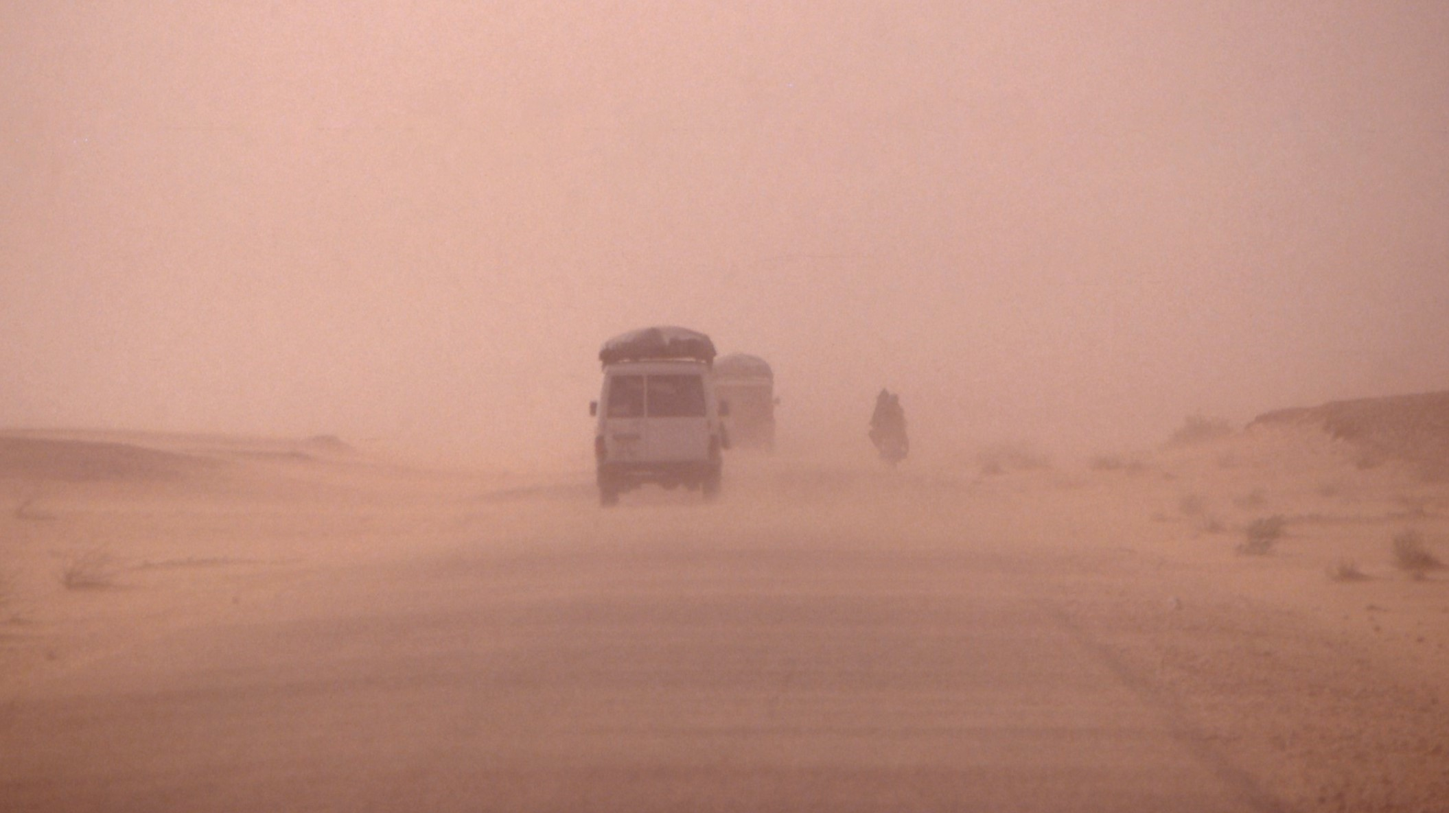 Sand storm on national road N11 in Niger between Agadez and Zinder